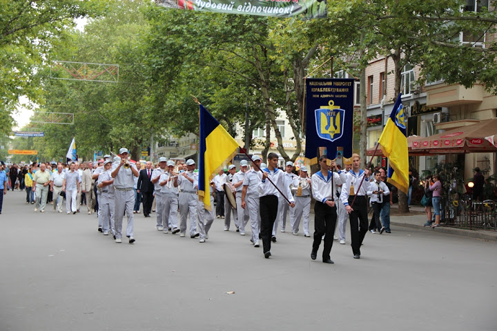 Admiral Makarov National University of Shipbuilding ceremony of solemn Initiation into Students